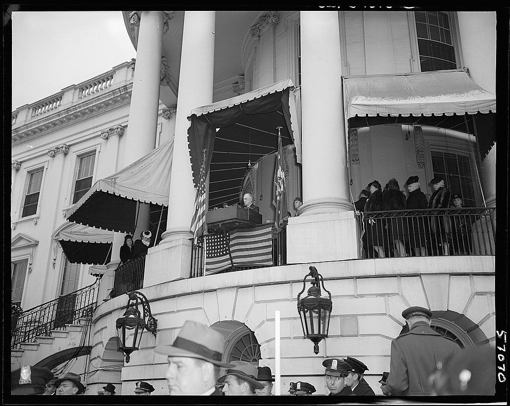 Inauguration of Franklin Delano Roosevelt at White House